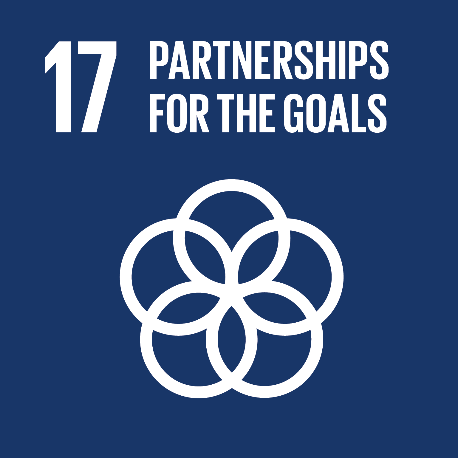 SDG17 Partnership for the GoalsRomână: Obiectivul de dezvoltare durabilă nr. 17: Parteneriat pentru dezvoltare durabilă (în engleză)